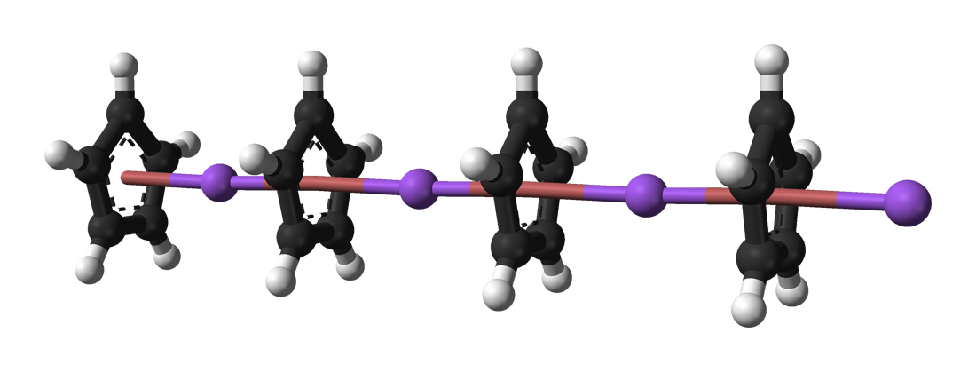 Ball-and-stick model of part of the crystal structure of sodium cyclopentadienide, NaCp, Na[C5H5]. X-ray crystallographic data from Organometallics, 1997, 16 (17), pp 3855–3858.